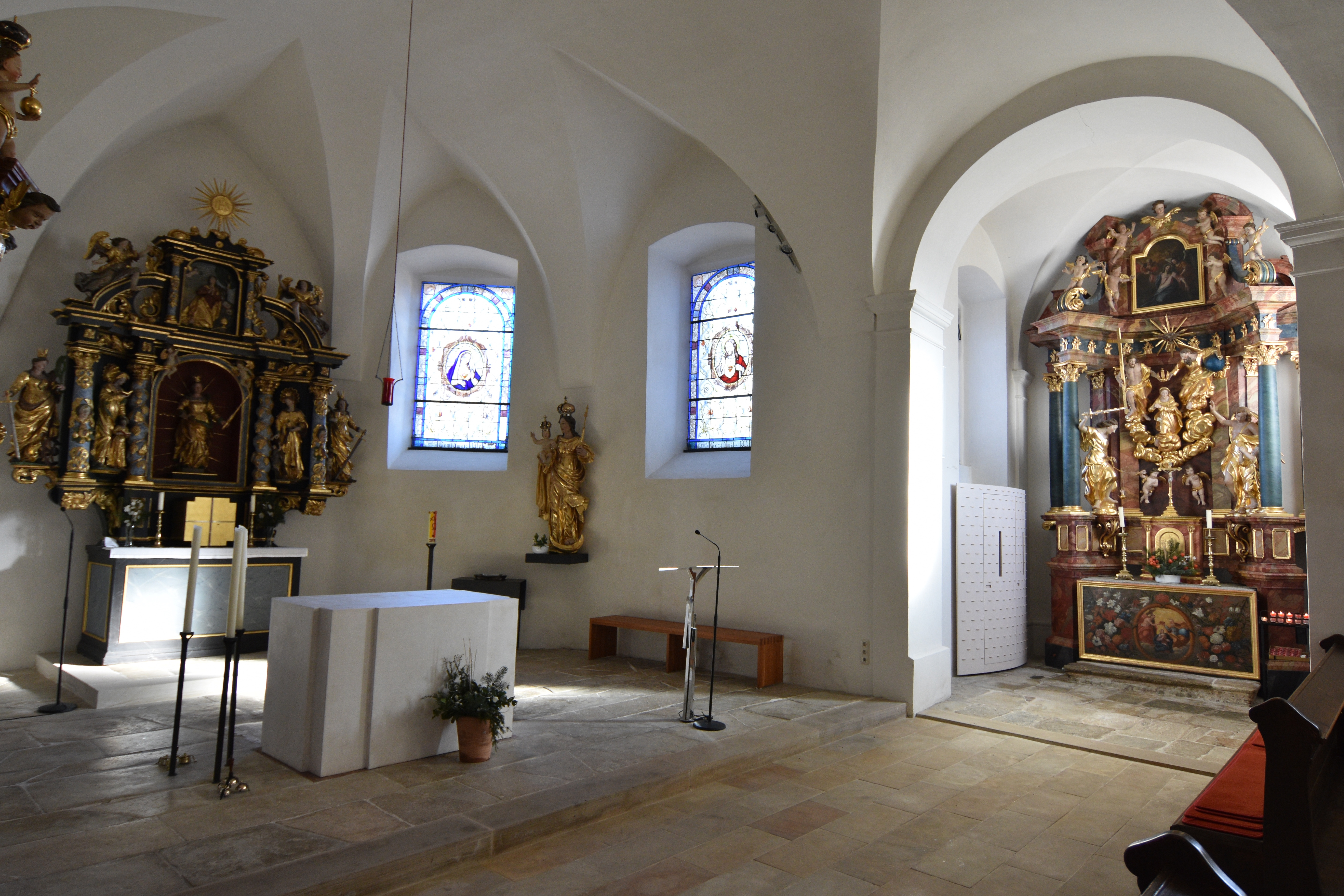 Saint Cunigunde of Luxembourg Church (Miesenbach bei Birkfeld) - Interior